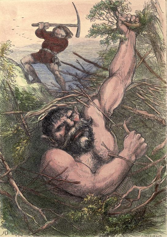 Illustration from Jack and the Giants